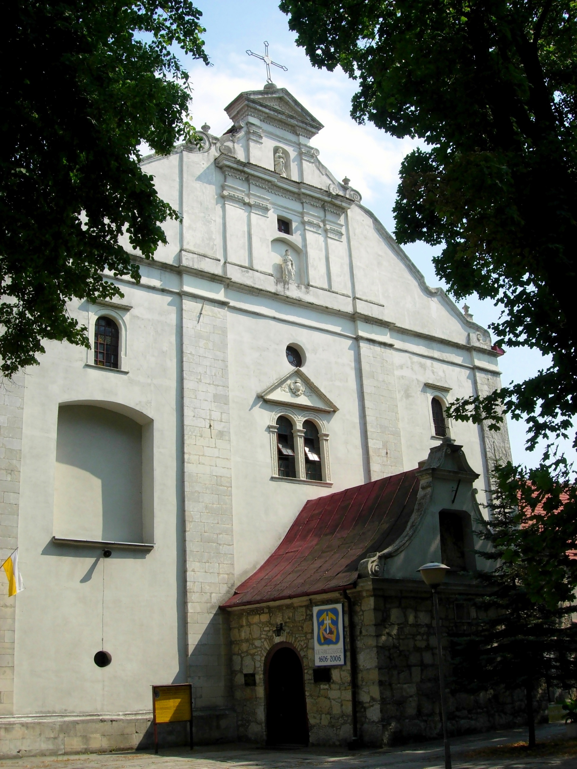 The Visitation of the Blessed Virgin Mary Church in Pińczów (Mirów quarter)